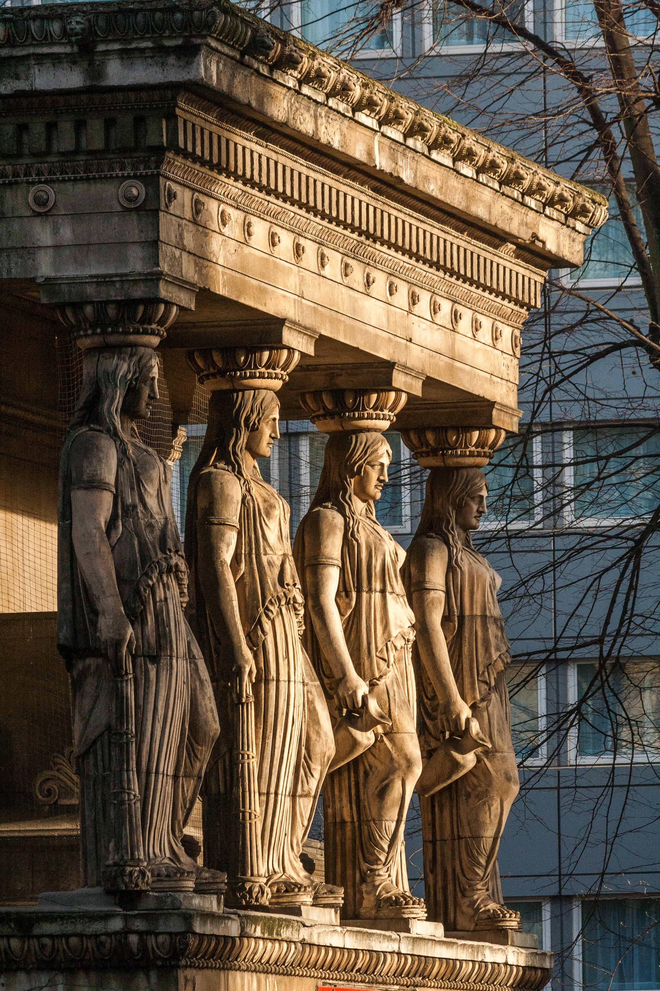 London, St Pancras New Church - portico with caryatids.